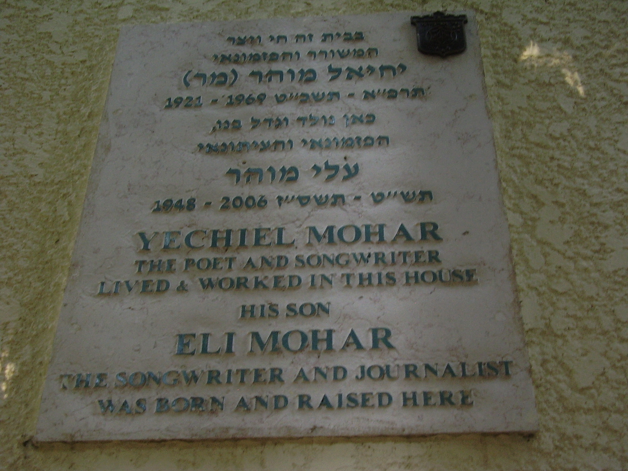 plaque memorial on the poets yehiel and eli mohar in tel aviv לוחית זיכרון על ביתם של יחיאל ועלי מוהר ברח' שלמה המלך 79 בתל אביב